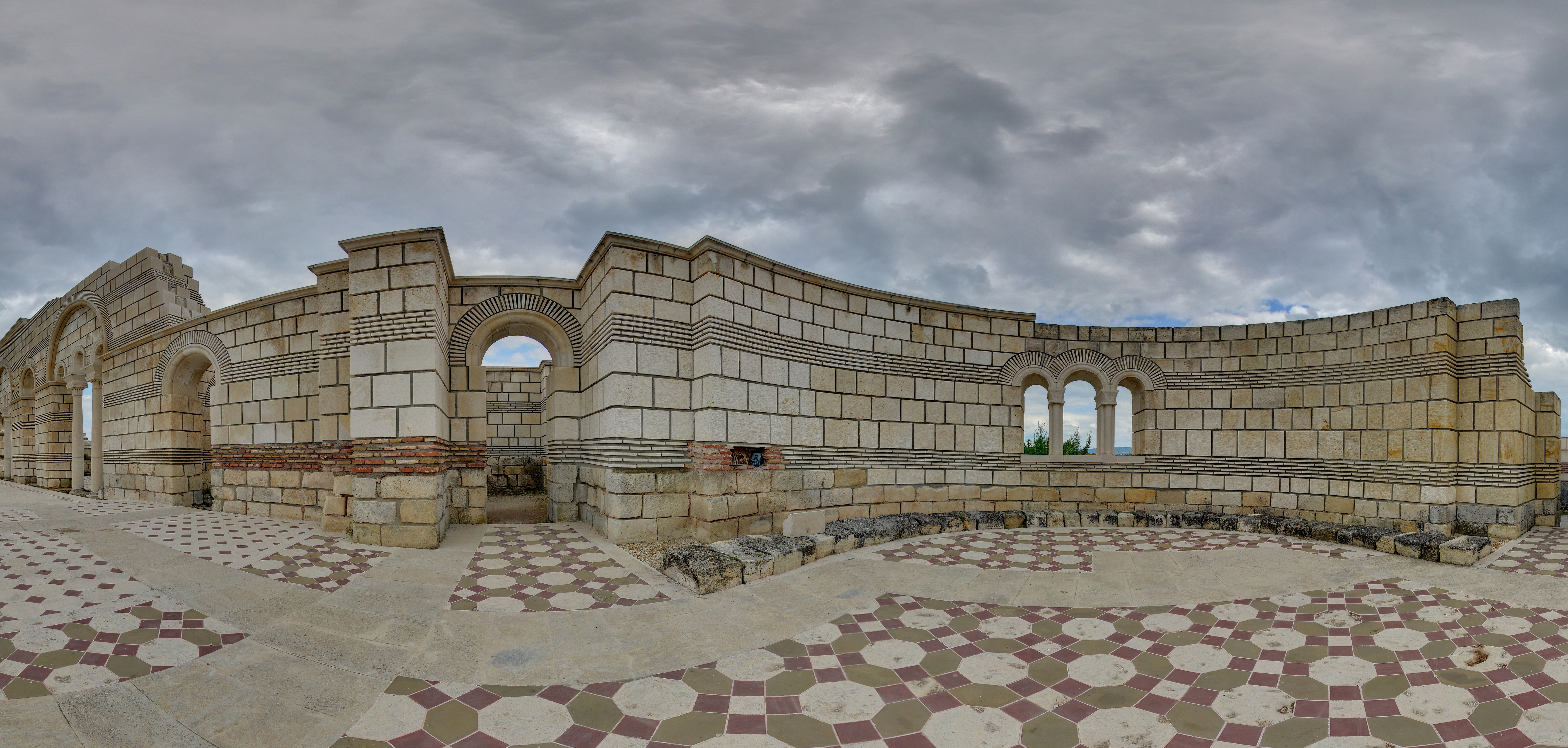 Great Basilica, Pliska